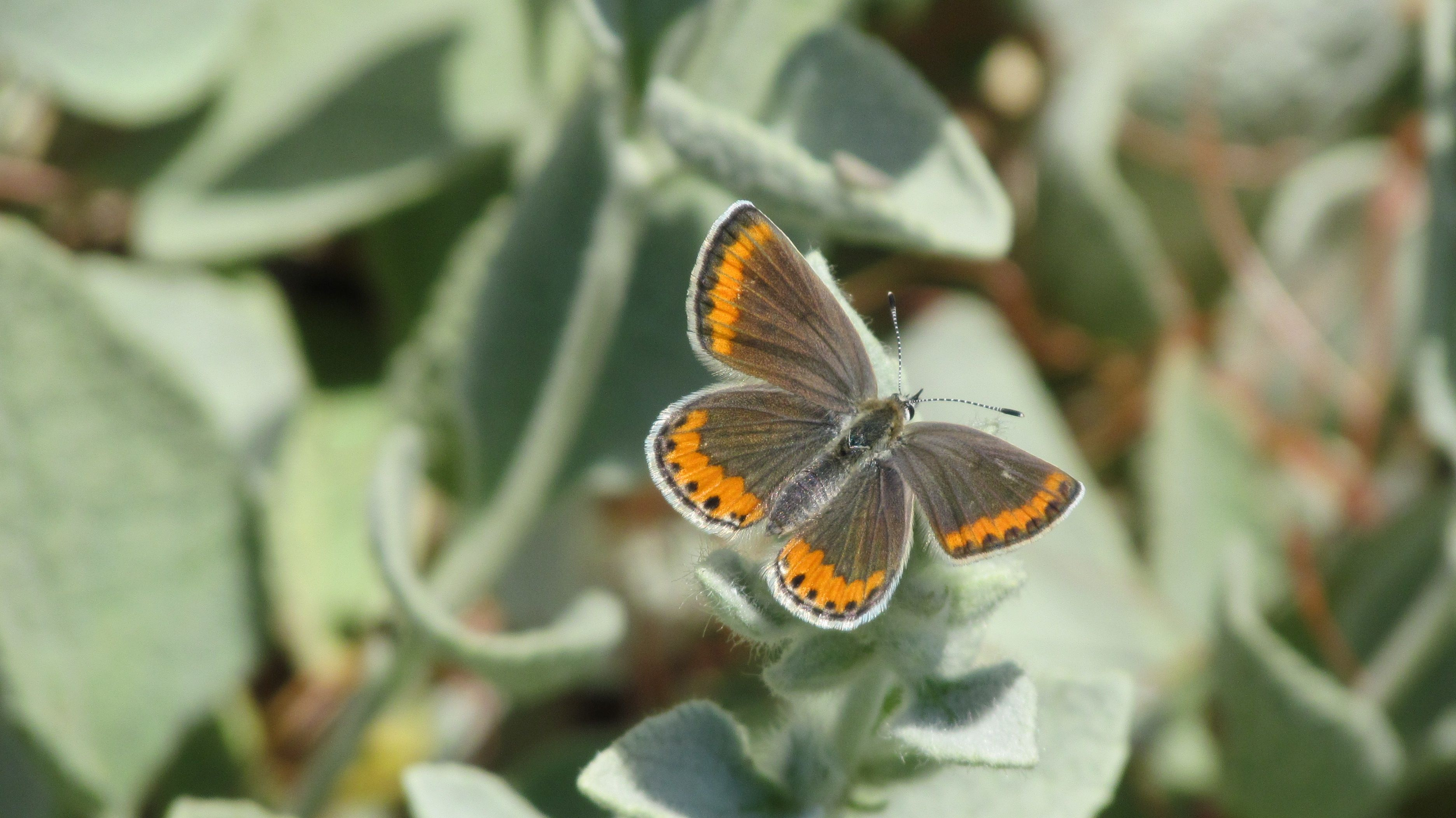 נקבת כחליל ניקול (Plebejus pylaon nichollae female), סיור האגודה לניטור פרפרים בחרמון, יוני 2011